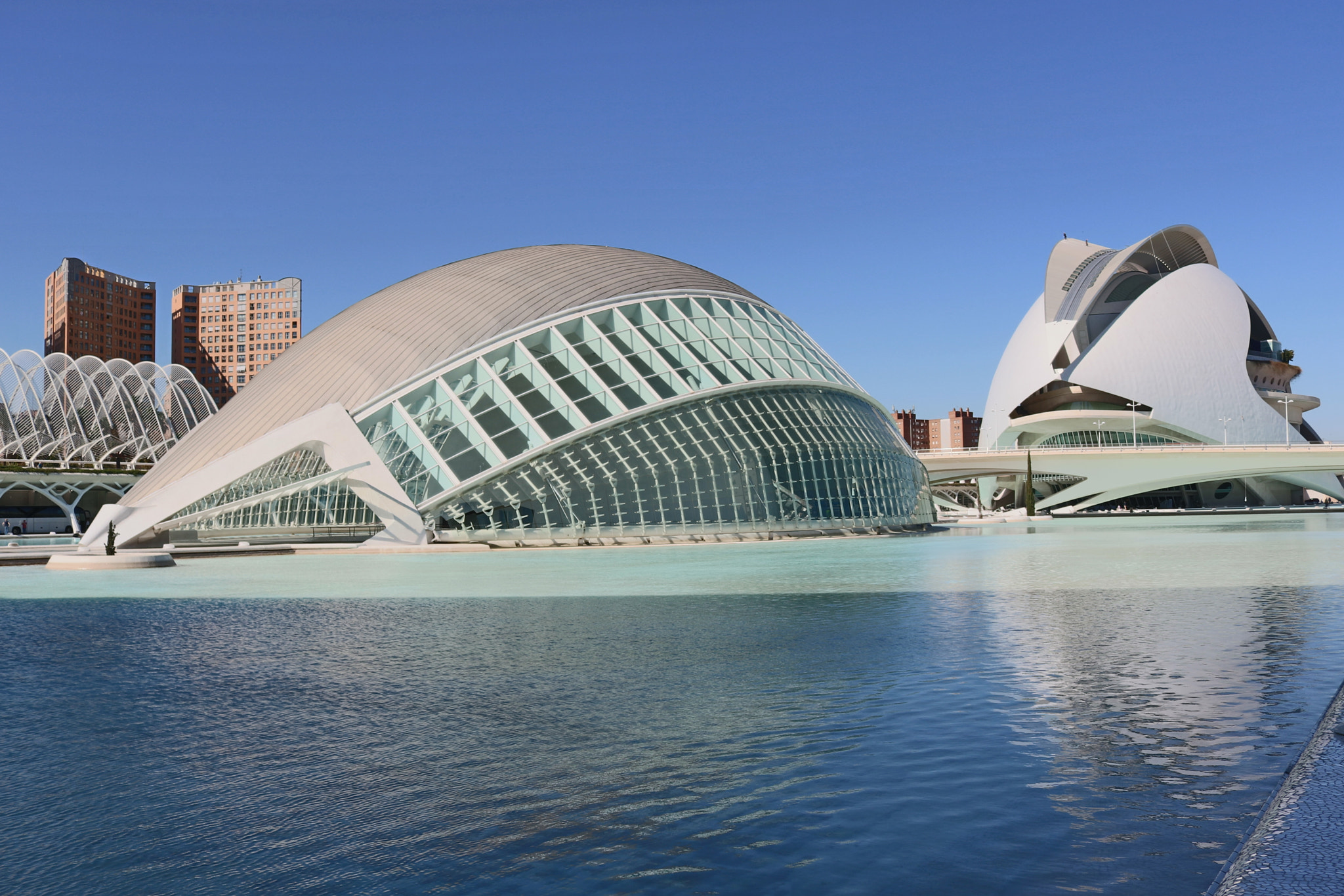 500px provided description: Valencia sightseeing - modern architecture, buildings, surrounded by water. [#modern ,#Travel ,#Architecture ,#Building ,#Valencia ,#Architectural ,#Sightseeing]